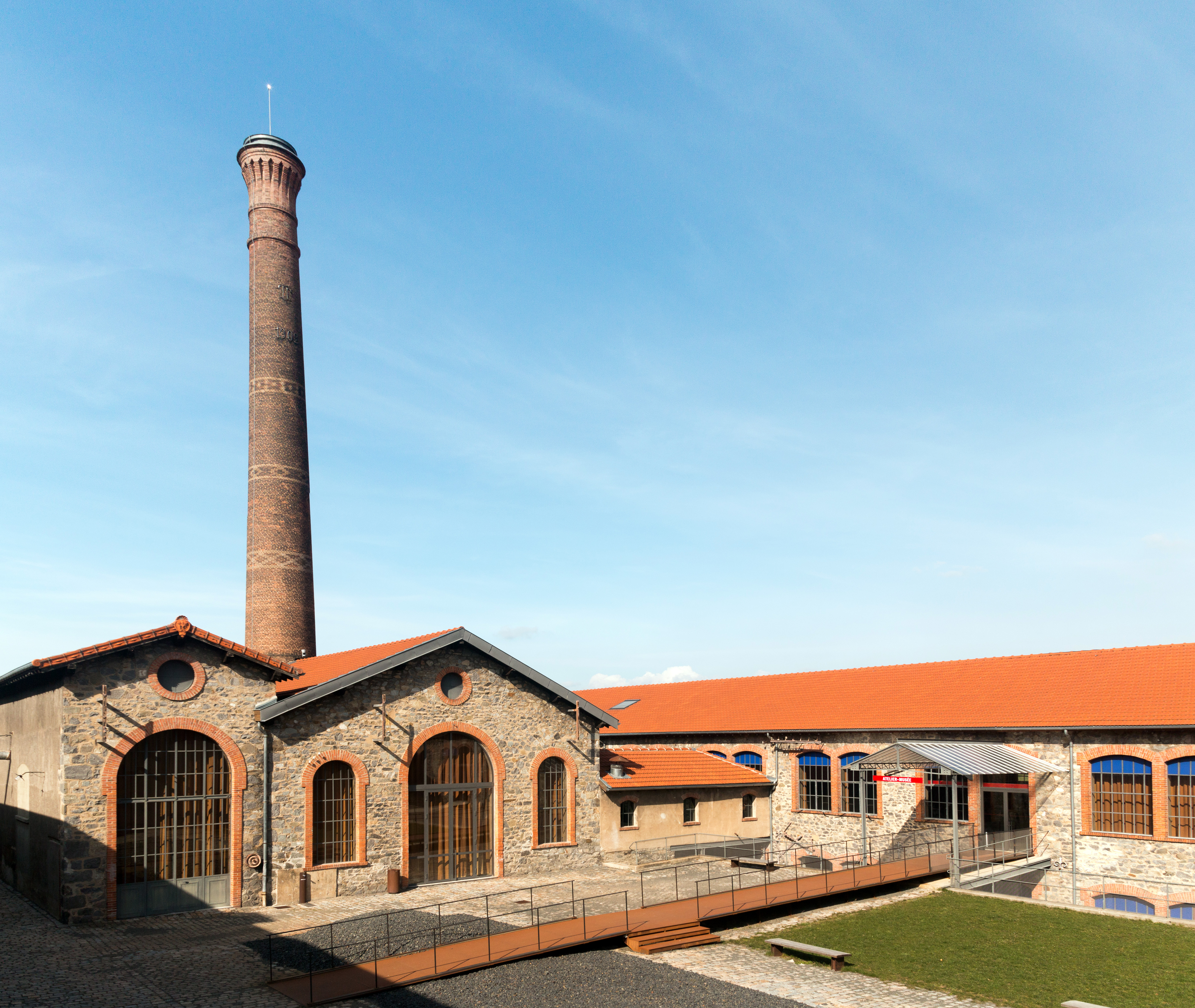 Old factory of felt hats of hair Fléchet seen from the concierge's lodge n.